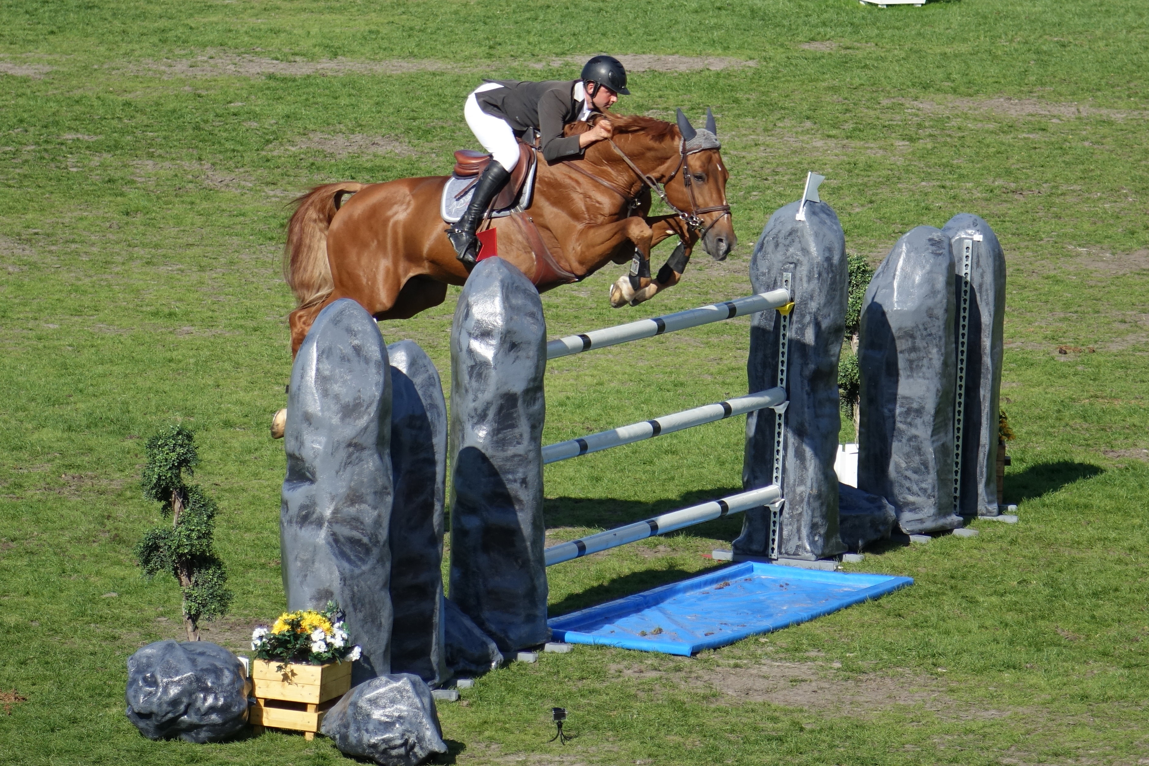 Olivier Guillon et Silver Deux de Virton*HDC, French Jumping Championship "Master Pro" 2015 at Fontainebleau, France